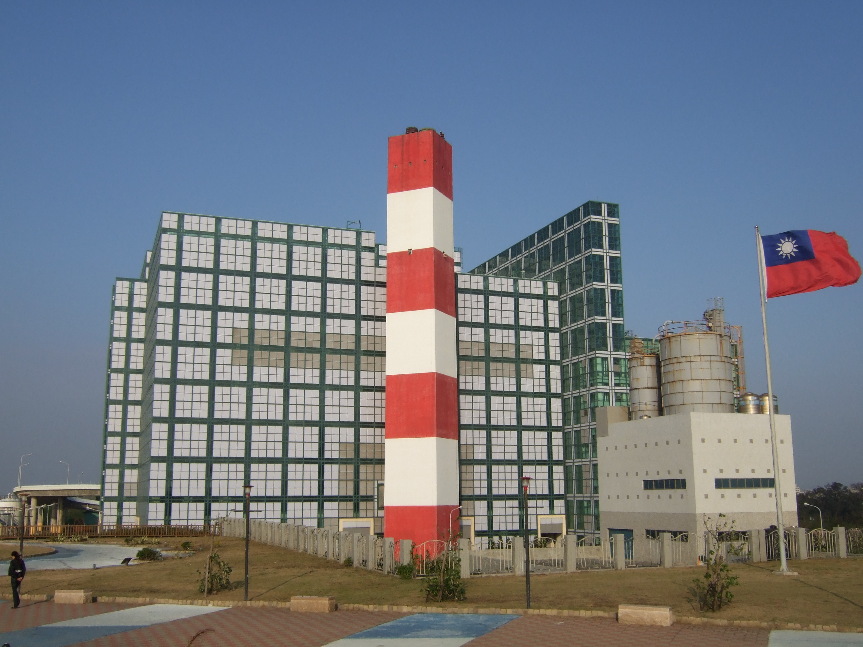 Hsinchu Refuse Resource Recovery Plant.